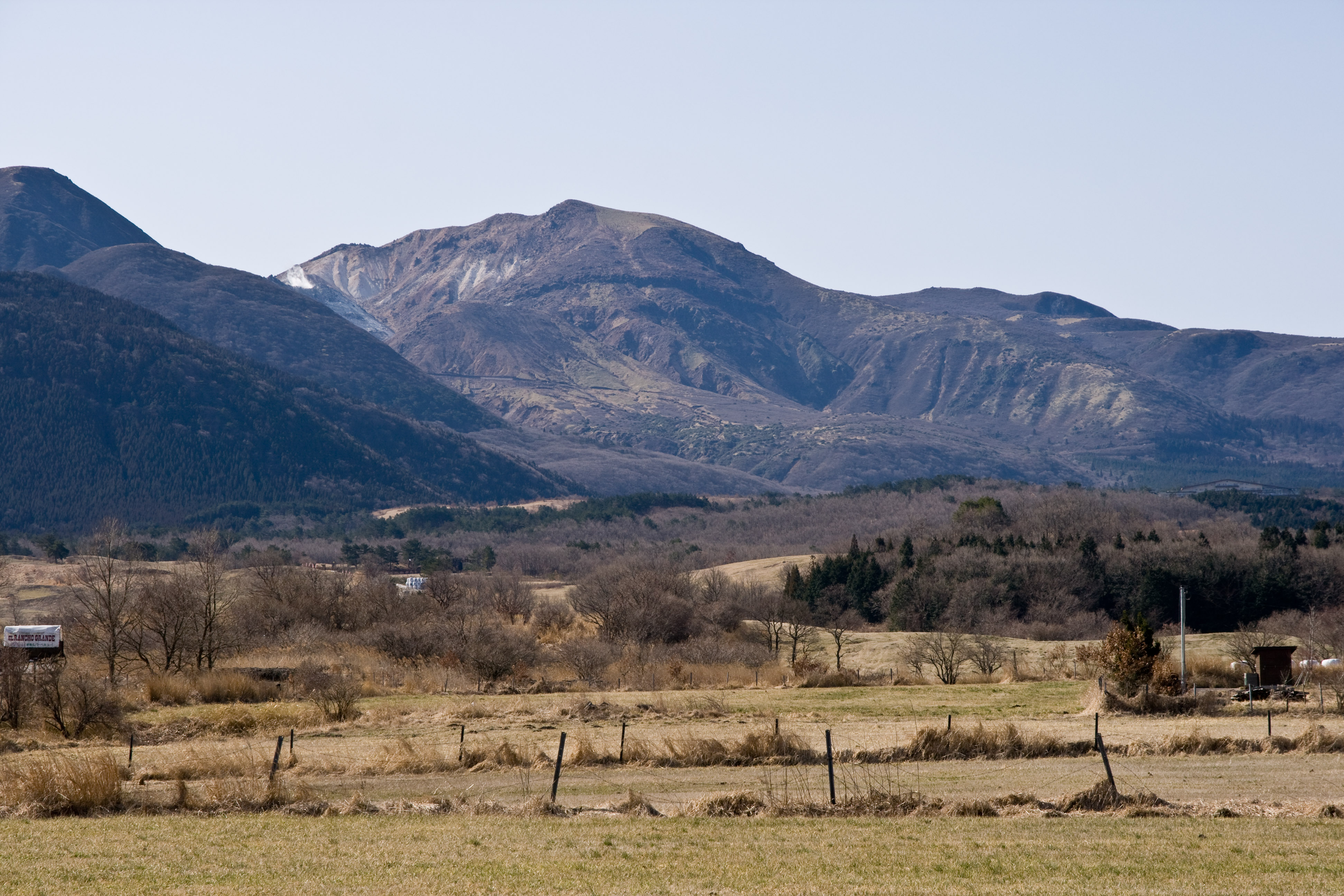 Mt.Hossho as seen from the north in Kokonoe Town, Oita Pref., Japan.